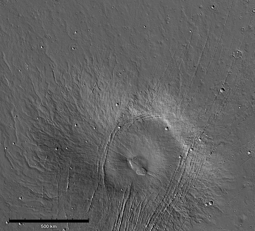 Radial lava flows NW of Alba Mons (MOLA)